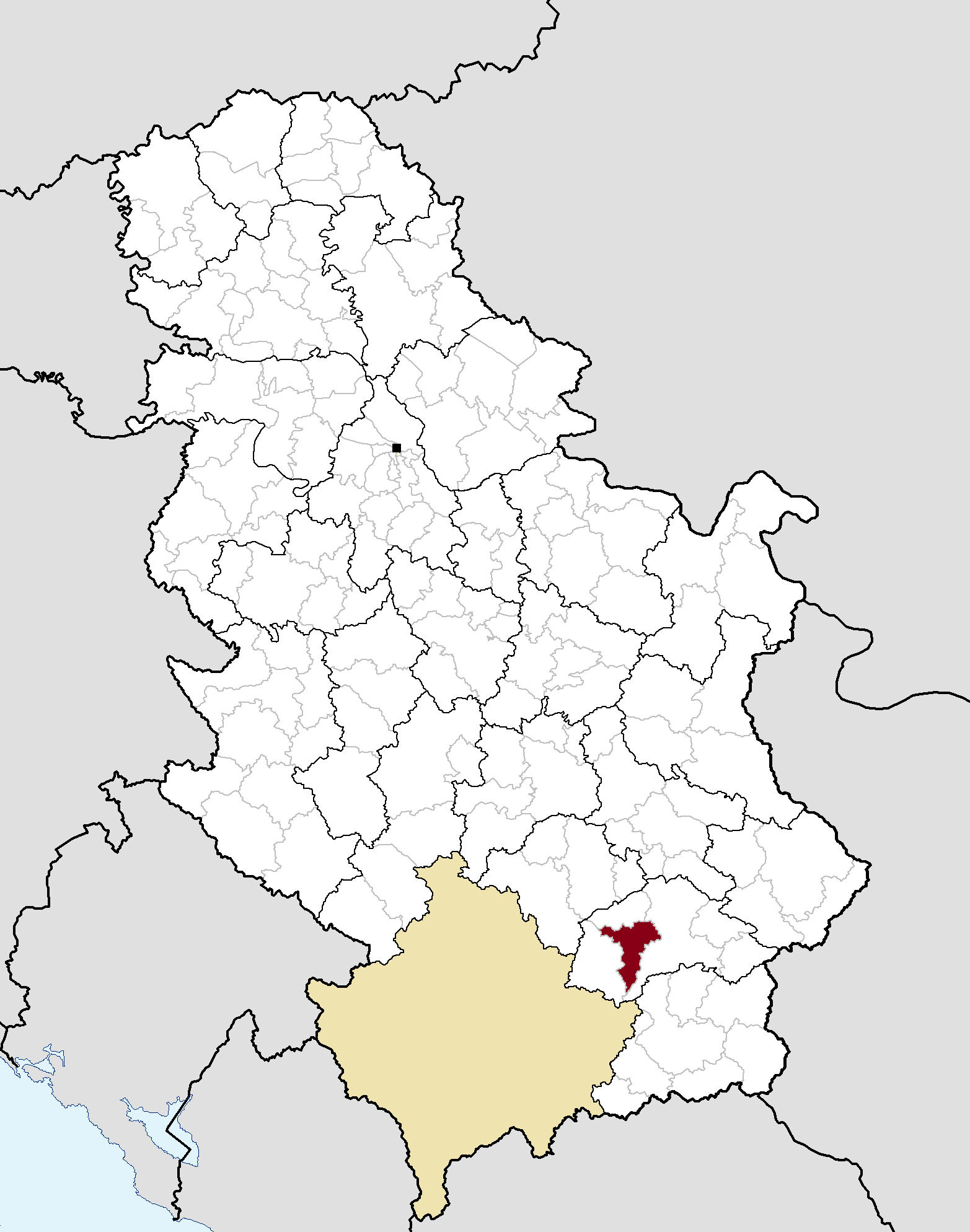 Municipal location in Serbia